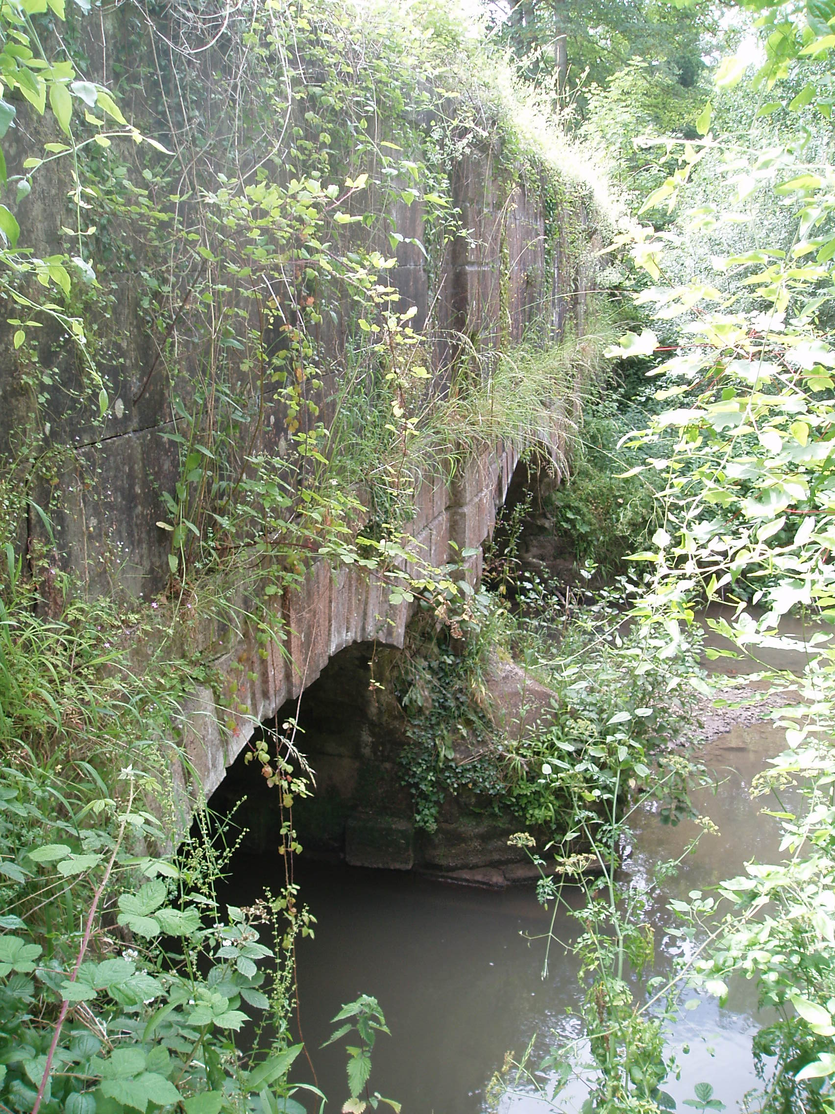 North face of Murtry Aqueduct, on the unfinished Dorset and Somerset Canal, c.1795.